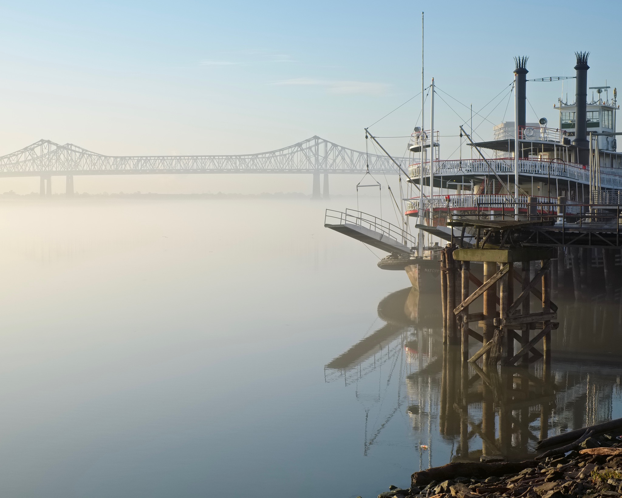 Entergy Giant Screen Theater